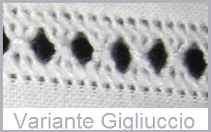 embroidery